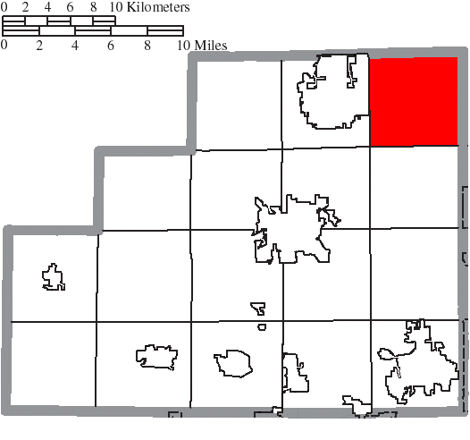 Map of the municipal and township boundaries of Medina County, Ohio, United States, as of the 2000 census, with the location of Hinckley Township highlighted. Township borders are shown only in unincorporated areas in order to differentiate incorporated and unincorporated areas more clearly.